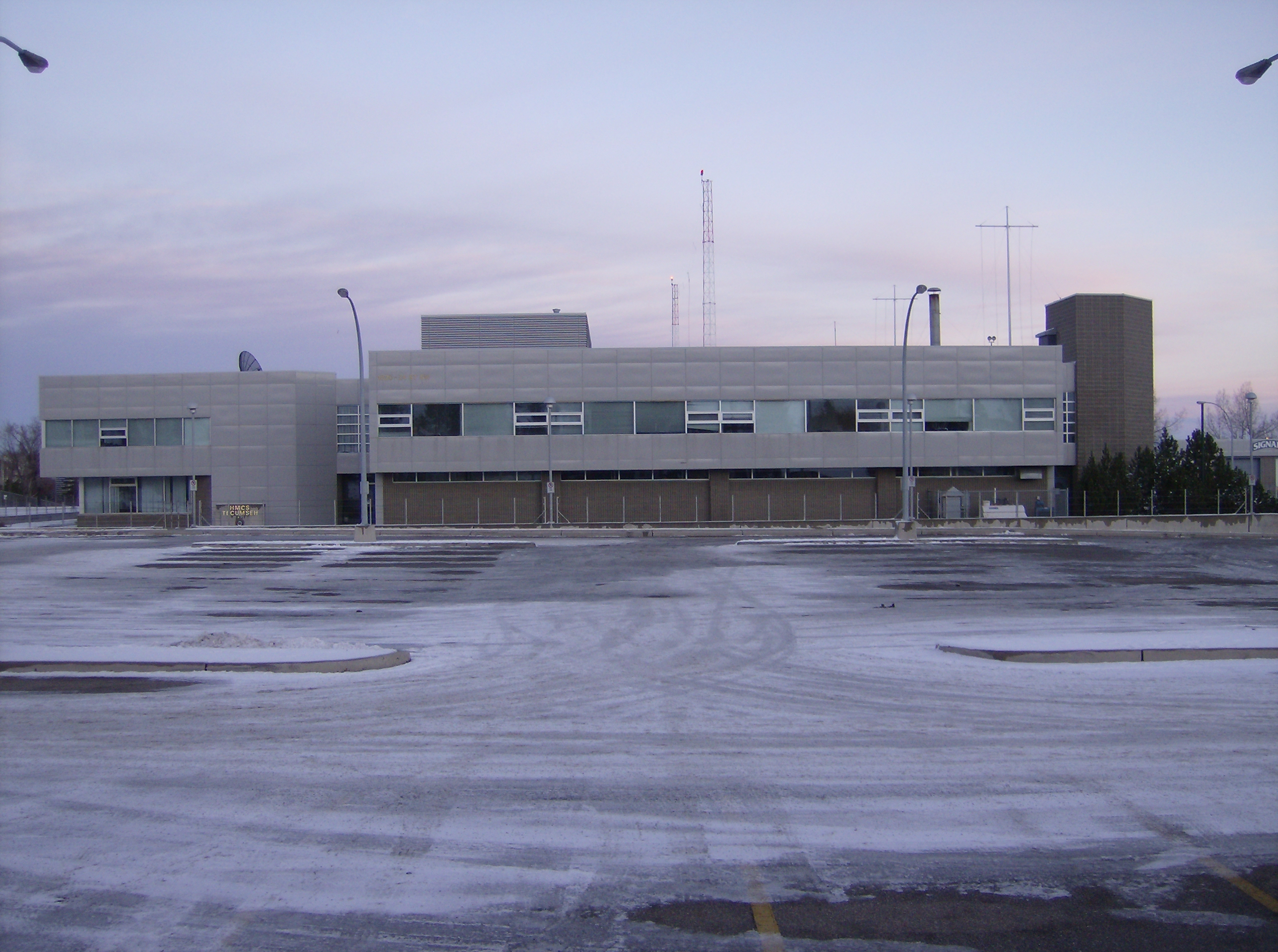 HMCS Tecumseh is a unit of the Canadian Forces Naval Reserve based in Calgary, Alberta